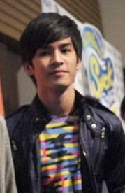 Jirayu La-ongmanee at a promotional event for the film SuckSeed on 15 February 2011